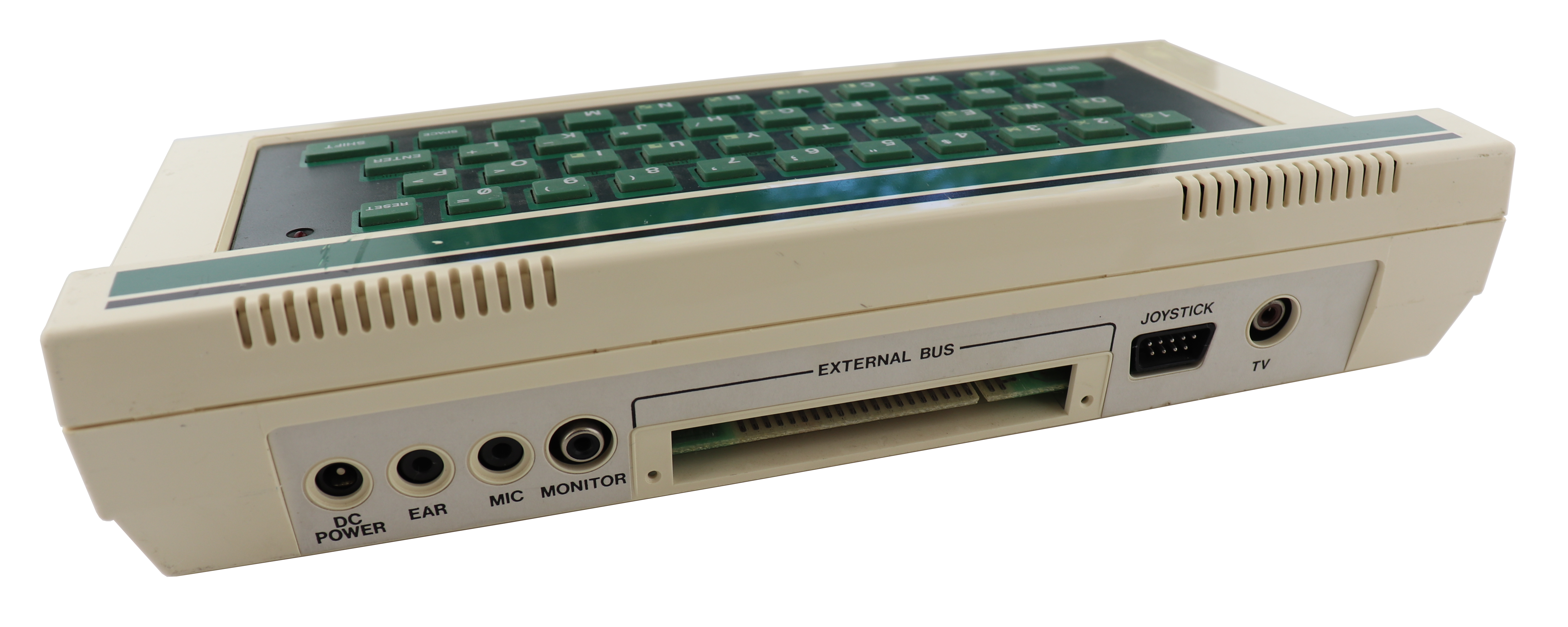 Back of Lambda 8300 showing the power, cassette, monitorexpansion, joystick, and TV out ports